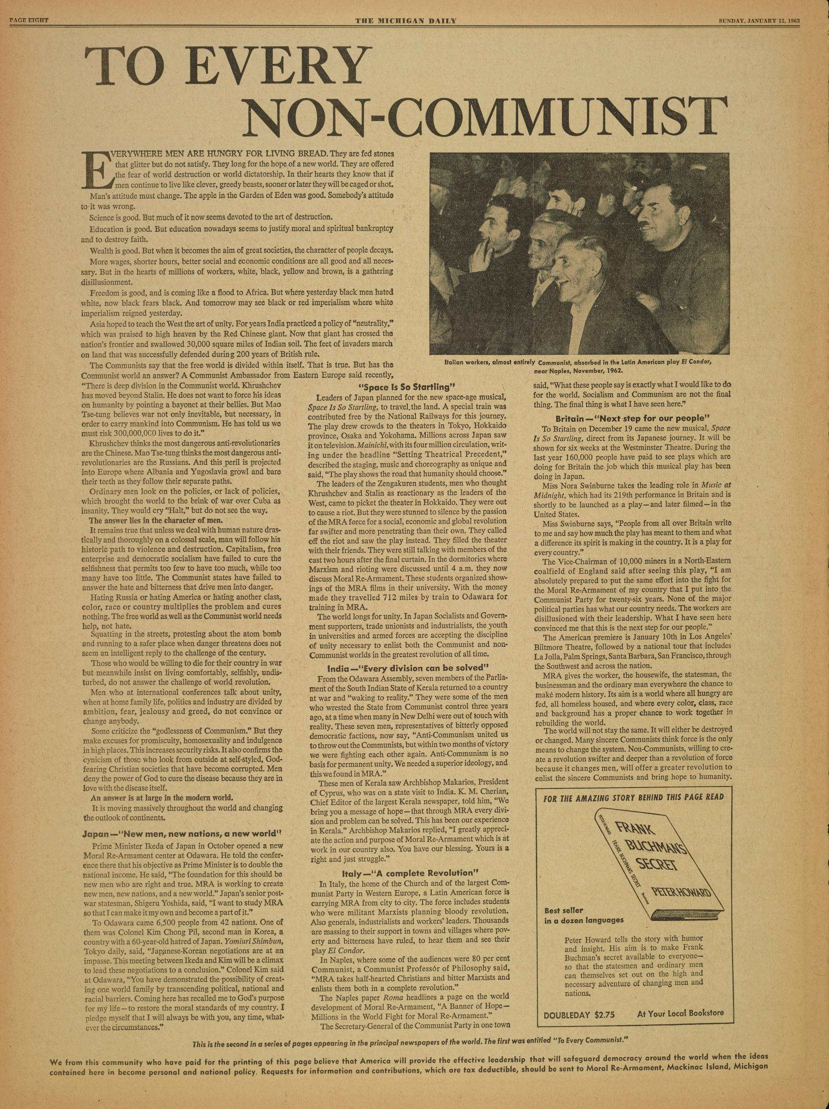 This page appeared in "The Michigan Daily" on 13 January 1963 to advertise for Moral Re-Armament.